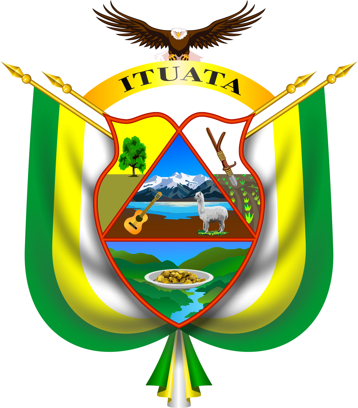 Coat of Arms of the Ituata District - Carabaya Province - Puno Region